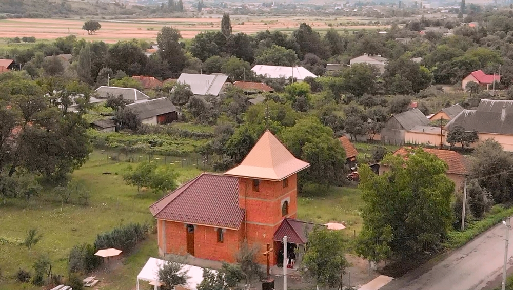 Церква Пресвятої Трійці МГКЄ